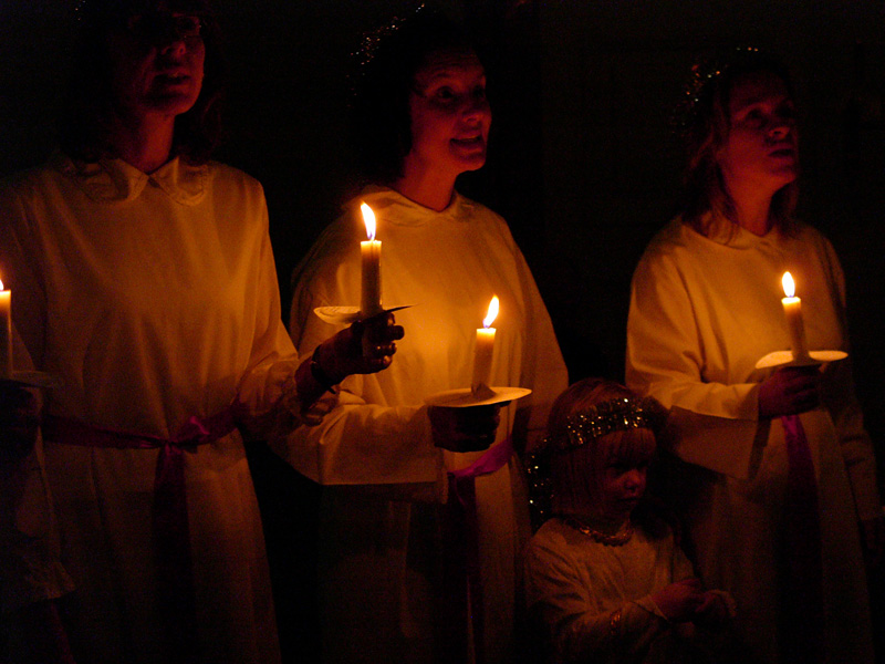 Swedish girls and women singing during Saint Lucy's Day (Lucia) celebrations in Vienna, Austria.